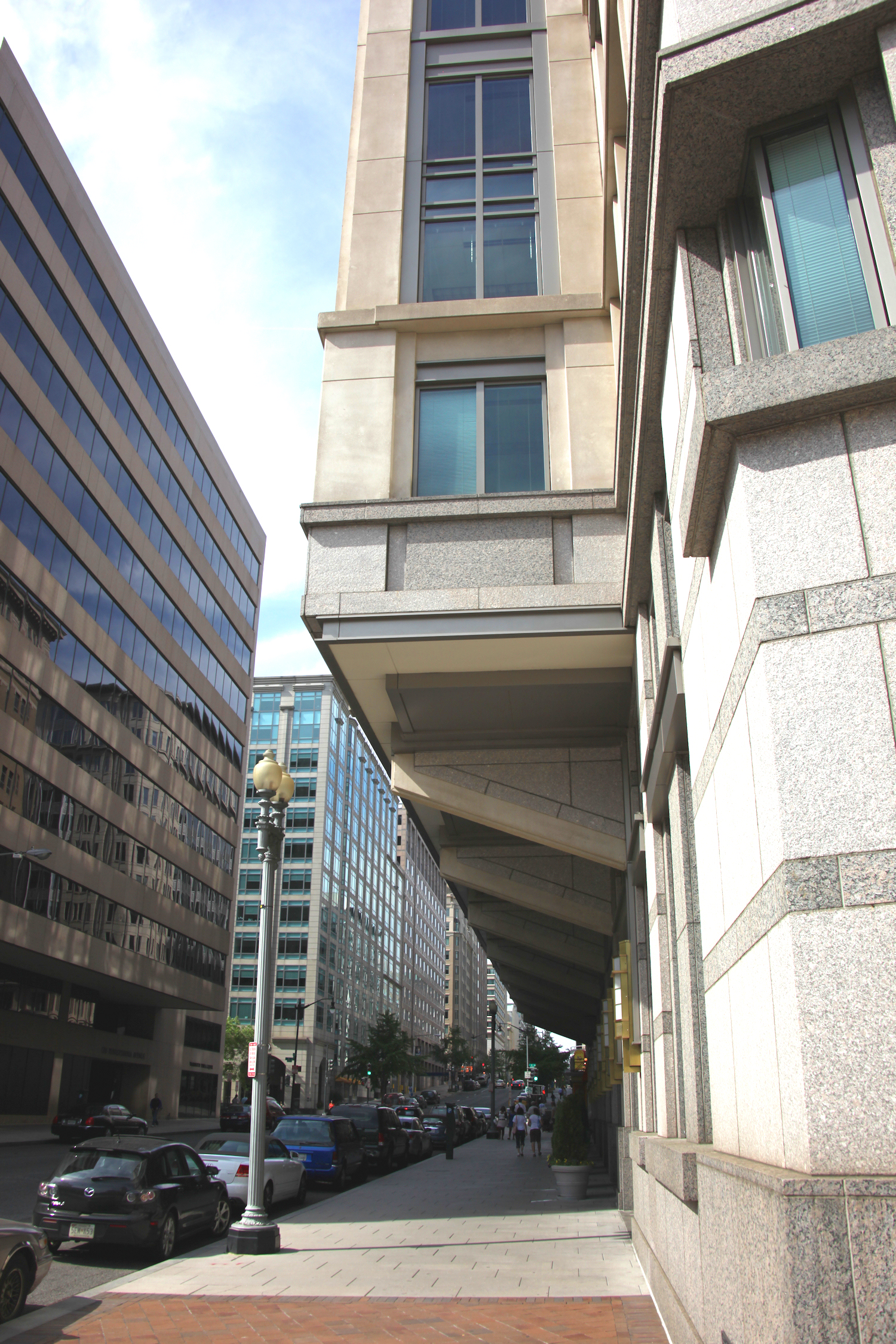 The 11th Street NW side of en:1111 Pennsylvania Avenue NW in Washington, D.C., in the United States in 2010. The cantilever over the sidewalk is depicted, an architectural and structural element added during the building's construction to compensate for moving the building line back from Pennsylvania Avenue by 50 feet (15 metres). The cantilever is at a height of 30 feet (9.15 metres) above the sidewalk.